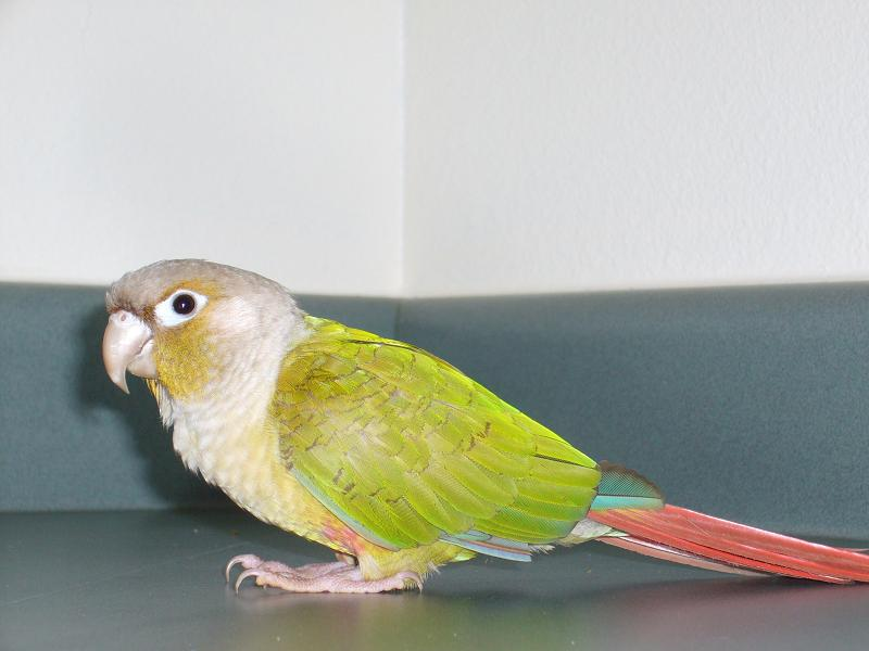 Green-Cheeked Conure (Pyrrhura molinae), cinnamon mutation pet. Wing clipped.